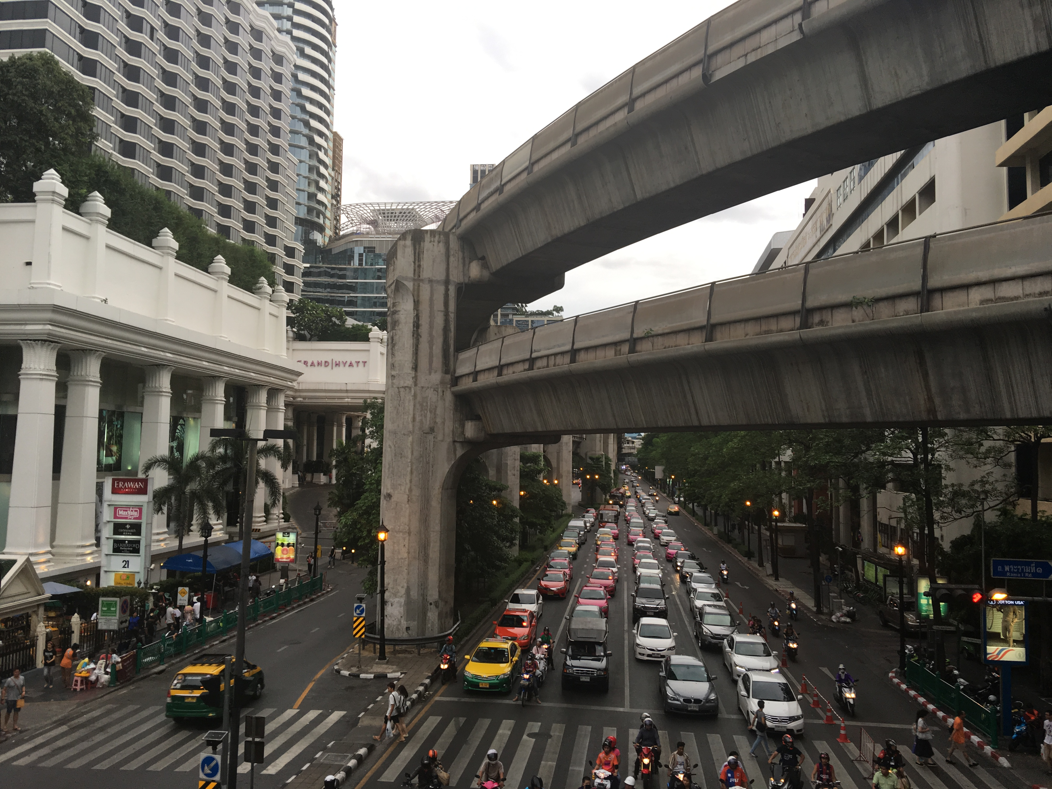 BTS Silom Line curve viaduct 12 June 2016